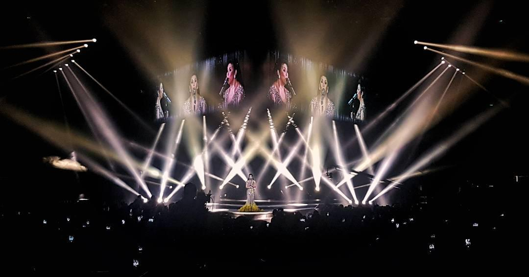 Regine Velasquez during her R3.0 Concert in October 2017